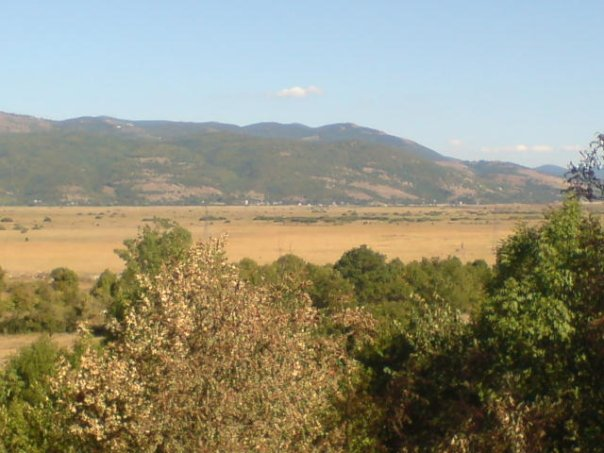 Krbava field and its beauty